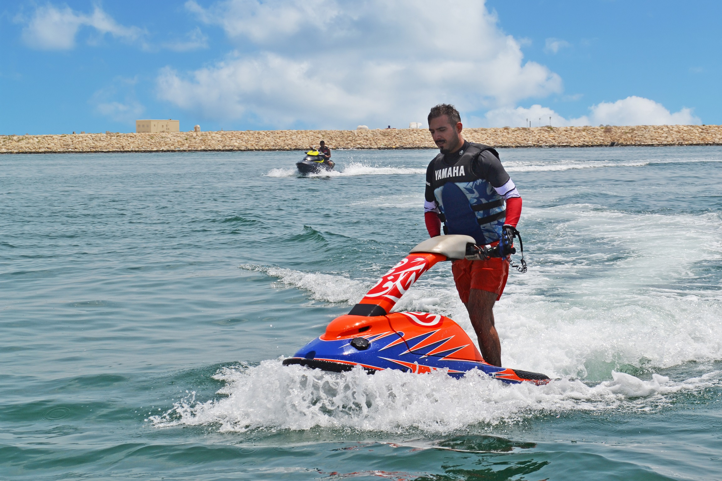 on the day of the ride